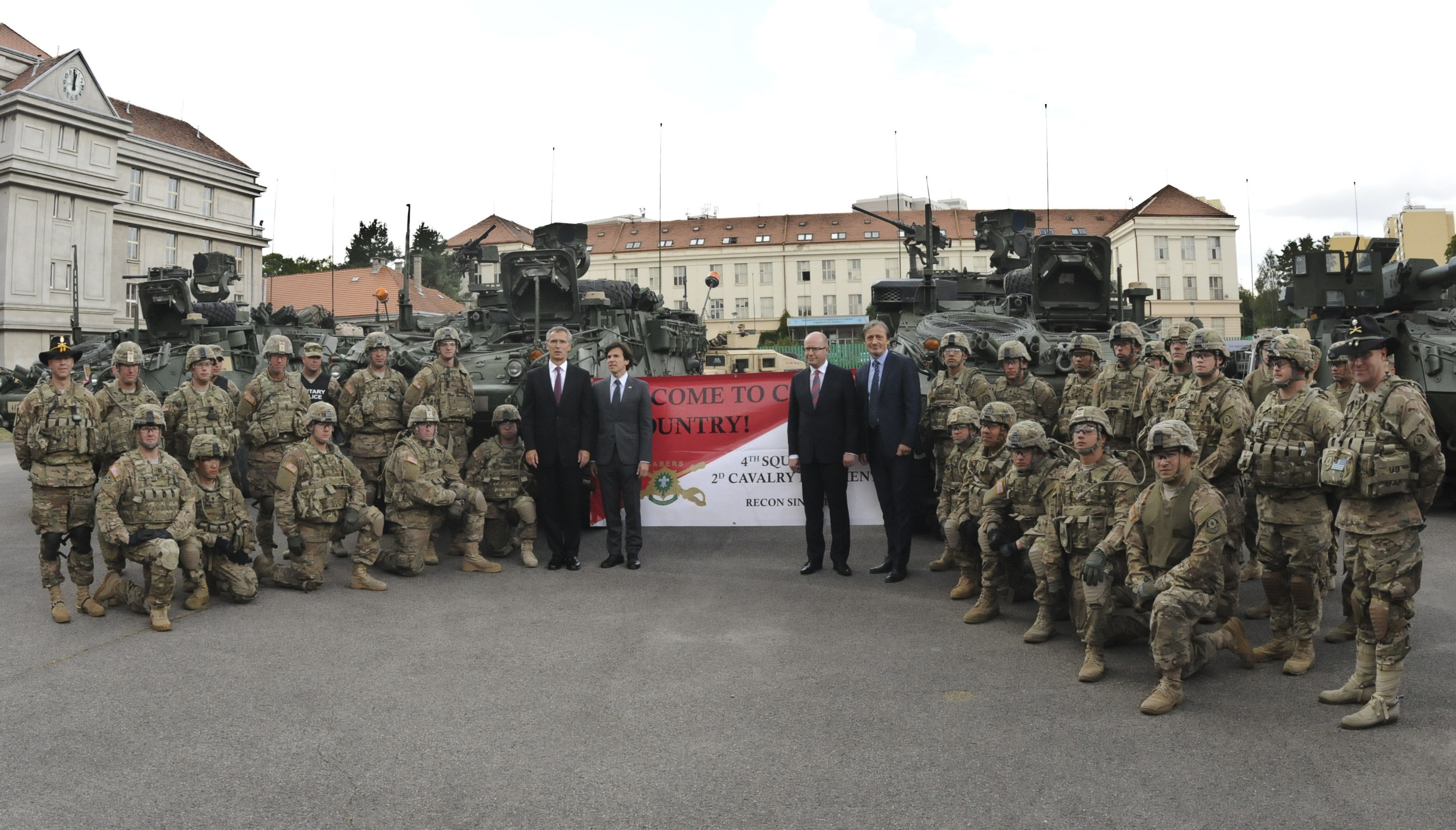 Mr. Jens Stoltenberg (middle left) the 13th NATO Secretary General; Ambassador Andrew Schapiro (center left) the U.S. Ambassador to the Czech Republic; Mr. Bohuslav Sobotka (center right) the Prime Minister of the Czech Republic and Mr. Martin Stropnicky (middle right) the Czech Republic Minister of Defense, pose with Troopers assigned to 4th Squadron, 2nd Cavalry Regiment during a static display ceremony held at Rusyne Base, Prague Airport, Czech Republic, Sept. 9, 2015. The purpose of the visit was to introduce the Czech Republic leadership and their military to the 2CR's Strykers along with their plan of attack for the upcoming tactical vehicle convoy, Dragoon Crossing, where the regiment will conduct their convoy from Germany to Hungary while passing through the Czech Republic and the Slovak Republic. (U.S. Army photo by Sgt. William A. Tanner/released)